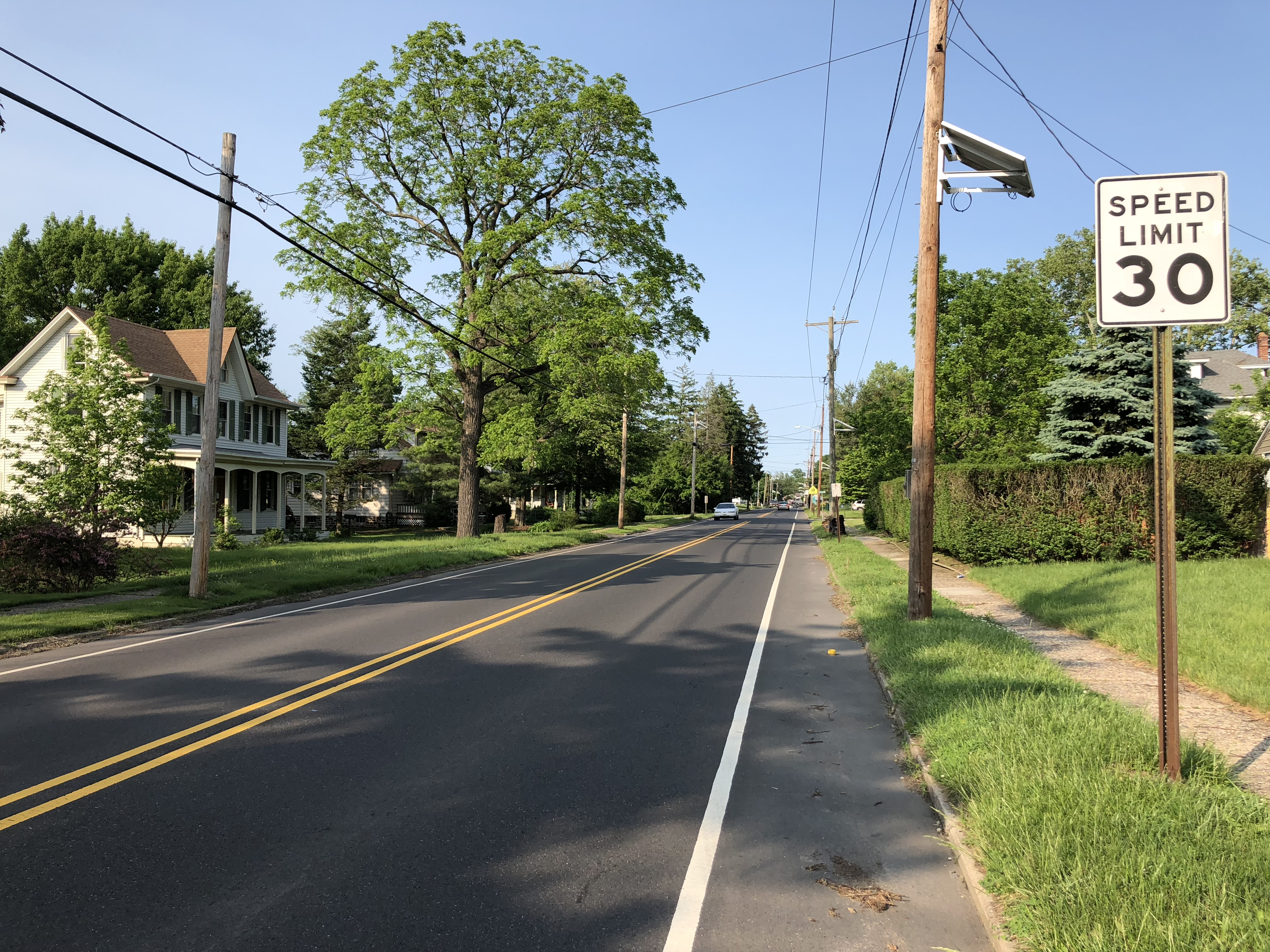 View north along Burlington County Route 543 (Warren Street) at Wheatley Avenue in Beverly, Burlington County, New Jersey